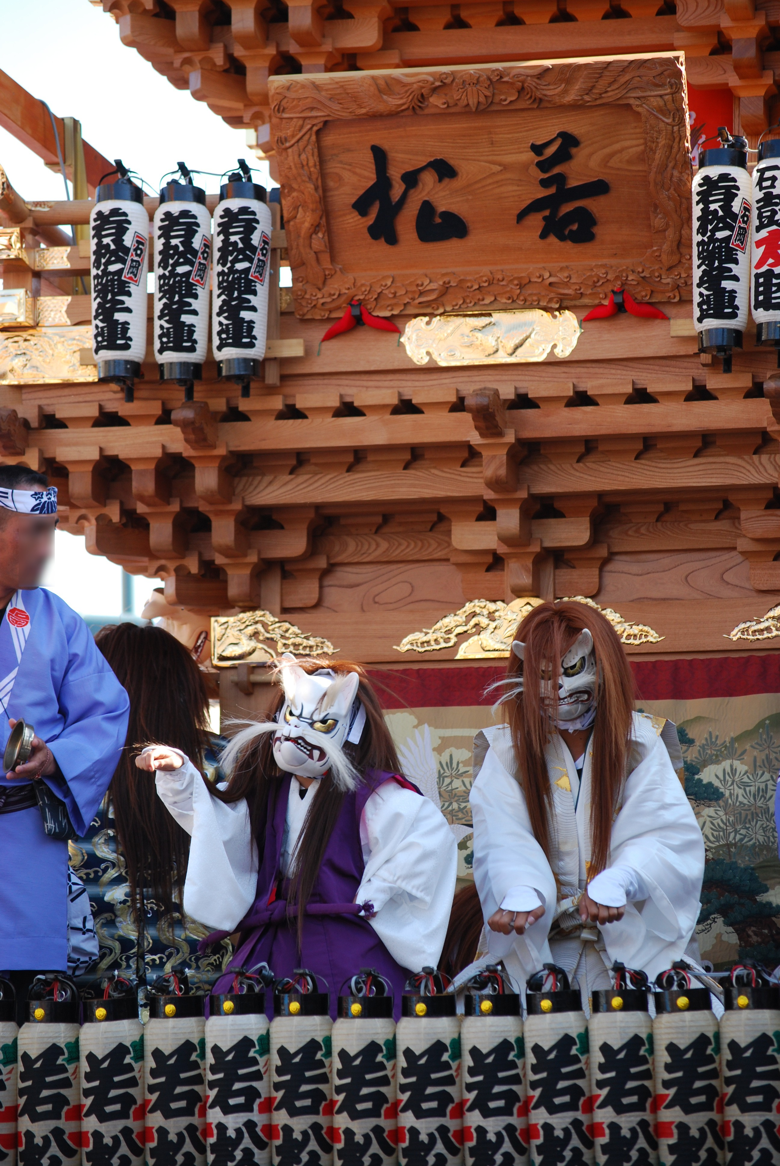 Fox dance from Wakamatsu-cho neighbourhood in Ishioka City, Ibaraki Prefecture, Japan, at the Hitachinokuni Soshagu Reitaisai festival